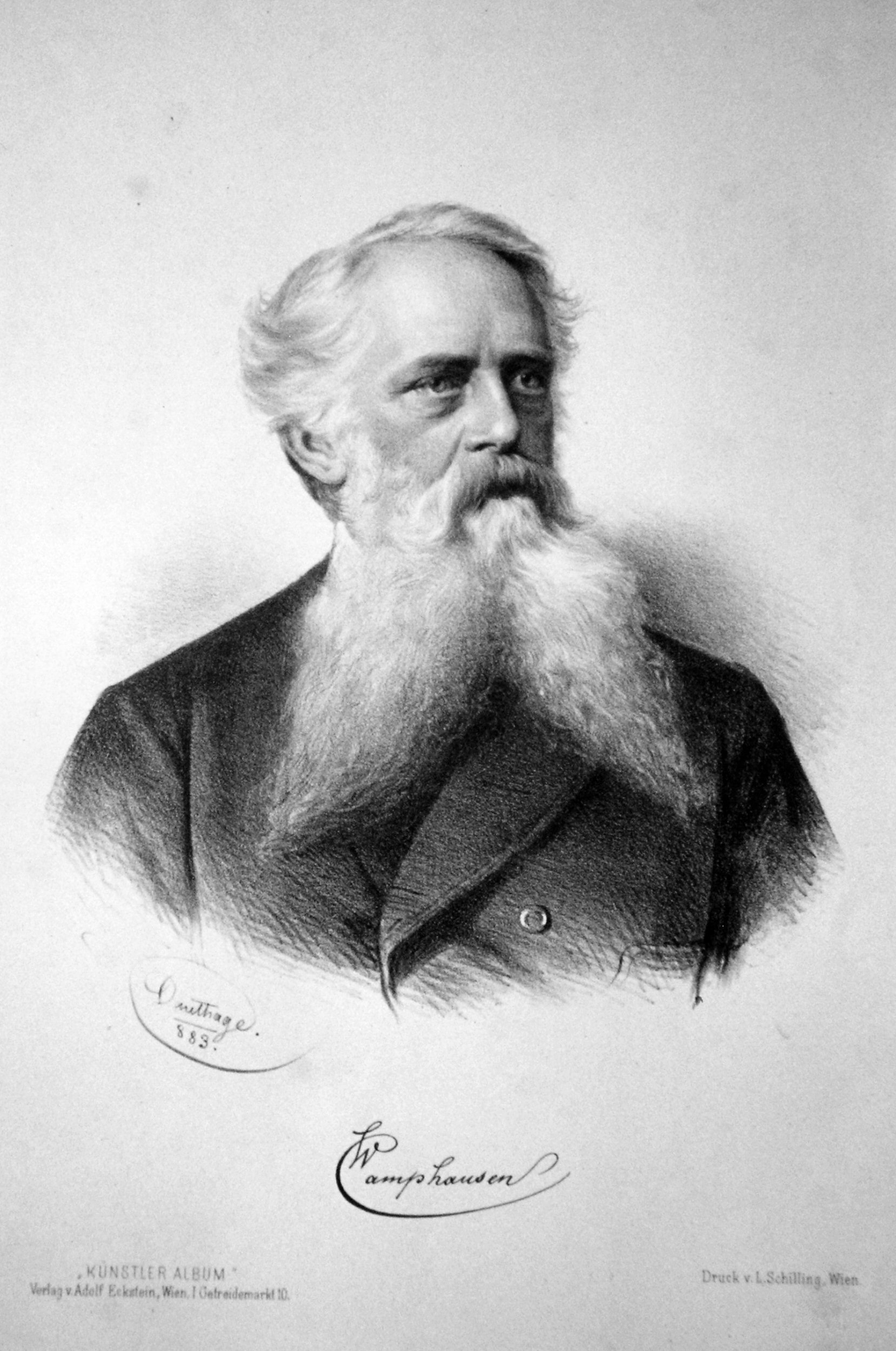 Wilhelm Camphausen (1818-1885), Lithography by Adolf Dauthage, 1880 From "Künstleralbum", pubished by A. Eckstein, Vienna